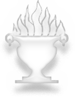 Symbol of Zoroastrianism, white version.